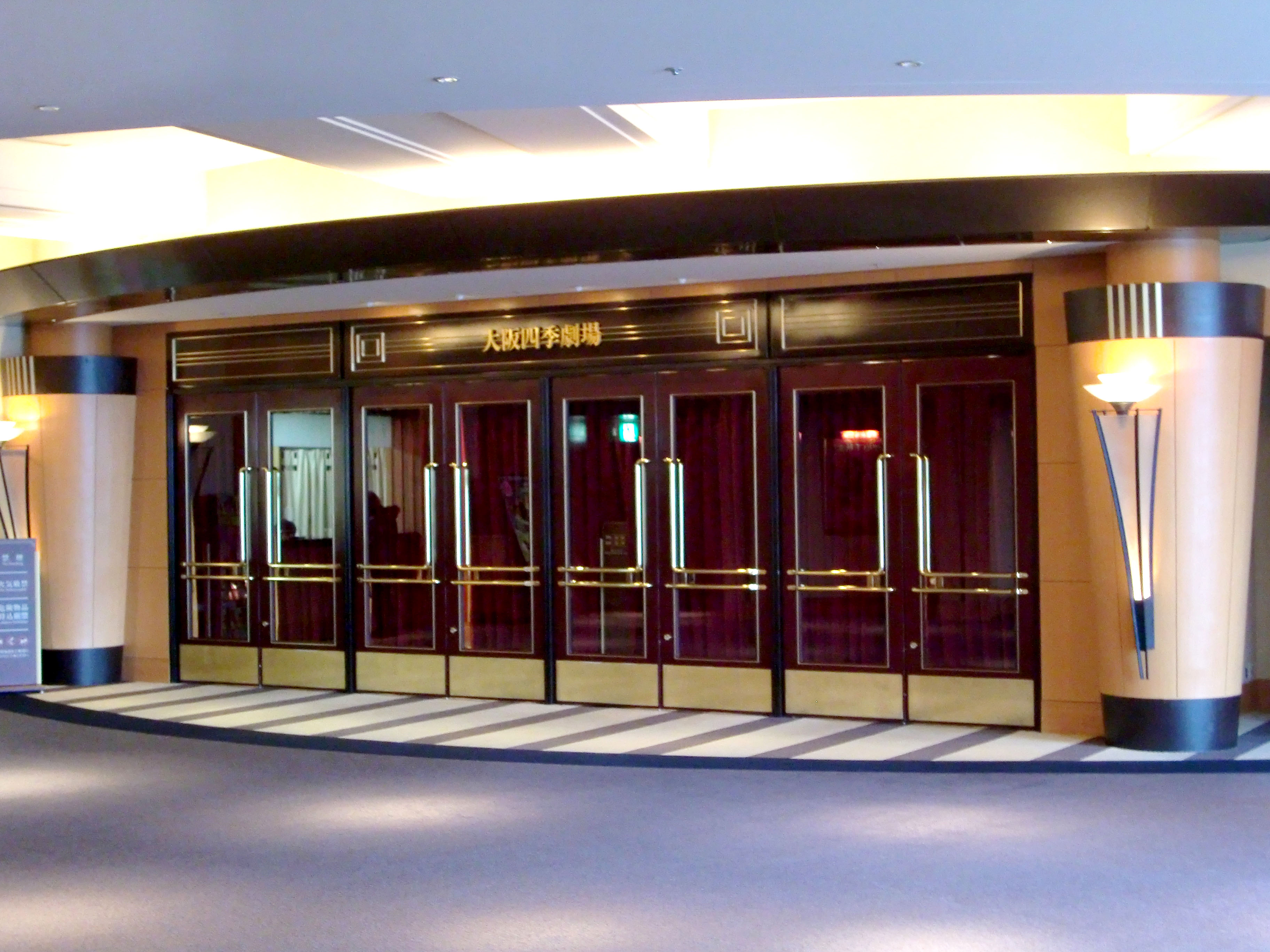 Osaka Shiki Theatre,HERBIS PLAZA ENT 7th Floor 2-2-22 Umeda Kita-ku, Osaka-City, Osaka prefecture, Japan.